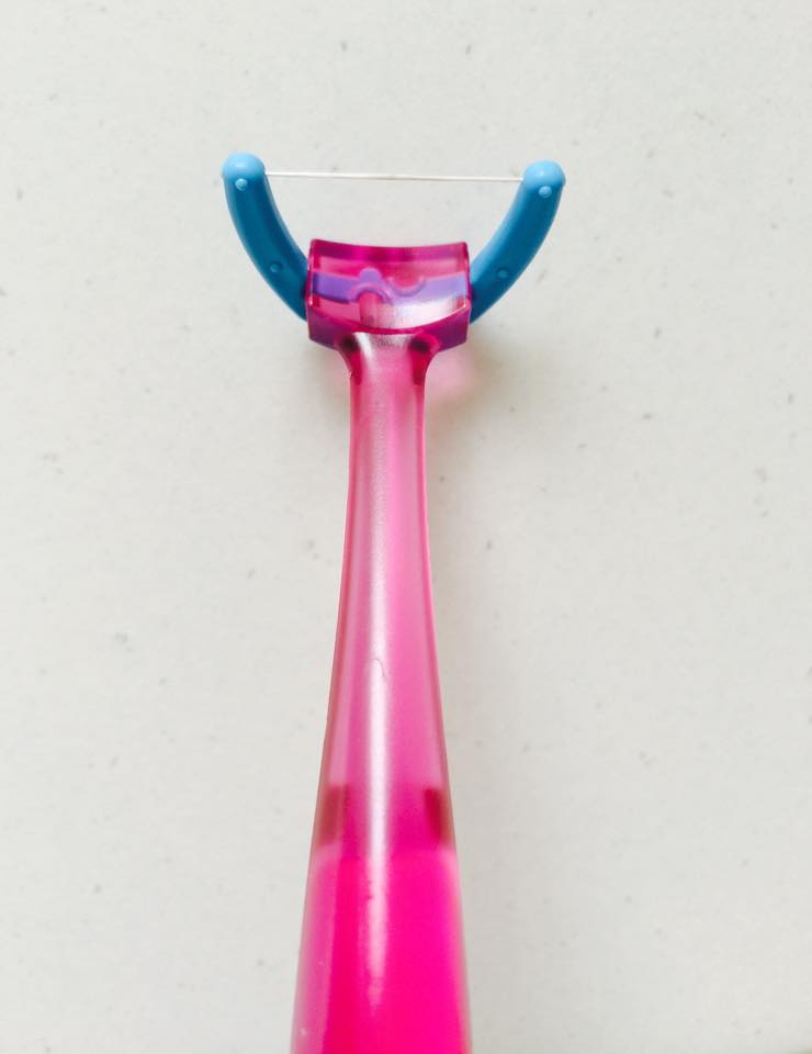 'Y' shaped floss pick